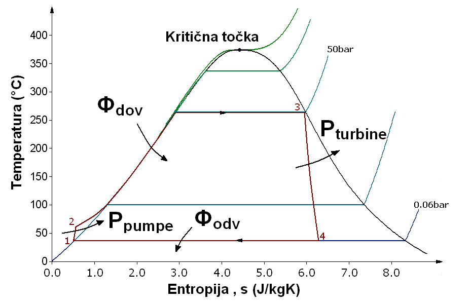 Ts (Temperature vs. specifific entropy) diagram of a basic Rankine cycle using water/steam in SI units. Data derived from IAPWS IF-97 using freeware openoffice-calc macros from Decided against using Kelvin for temperature scale as many people are unfamiliar with it; used °C instead. Isobars are at pressures 0.06bar, 1.01325bar (1atm), 50bar, 150bar and 221bar. Temperature rise associated with pump is heavily exaggerated for clarity and cycle operates between pressures of 50bar and 0.06bar. States are numbered using the convention I've always been familiar with. Easiest to think of the cycle starting at the pump and so input to pump is state 1.